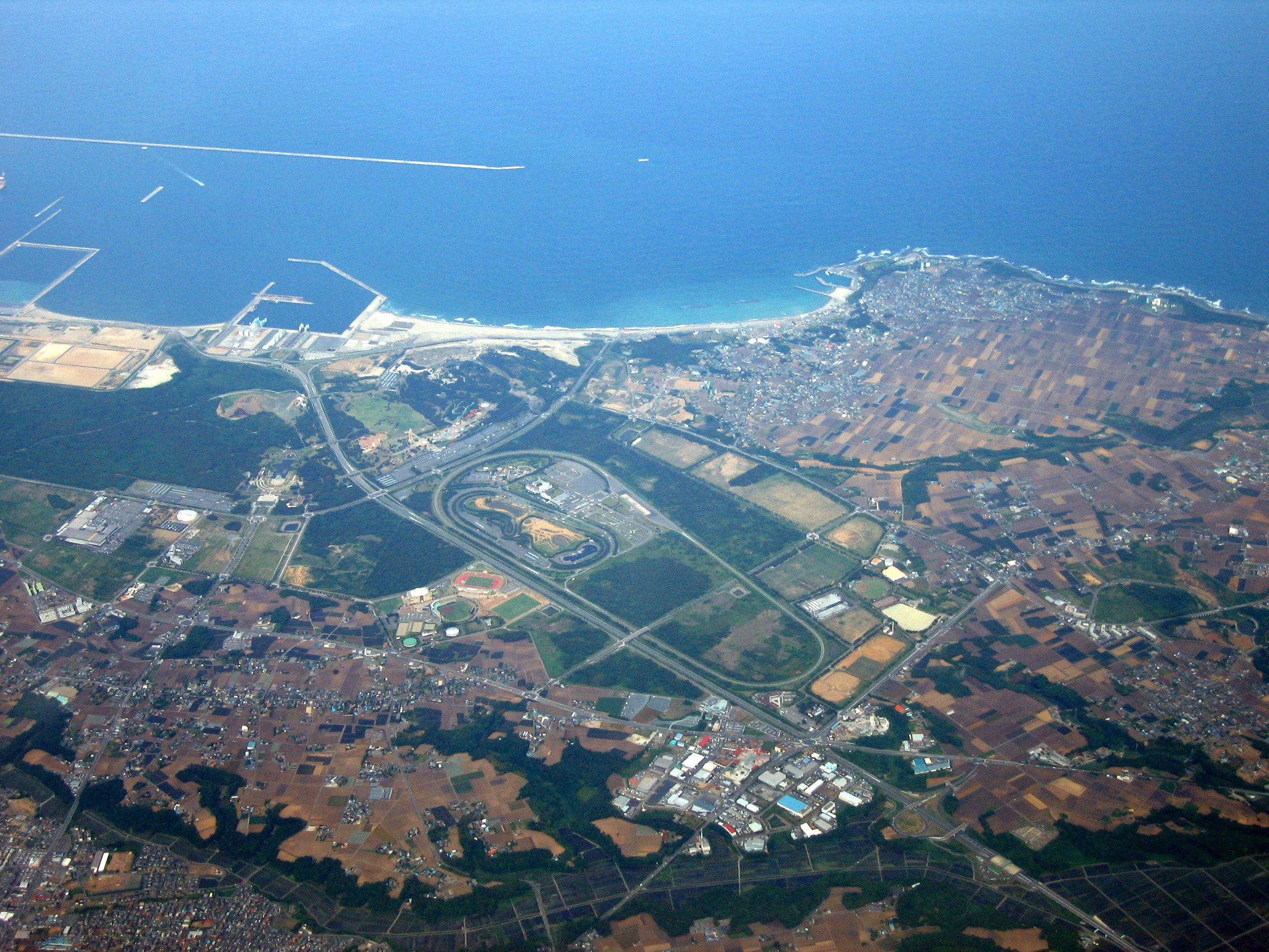 Hitachinaka – View from plane before landing at Tokyo, Japan.